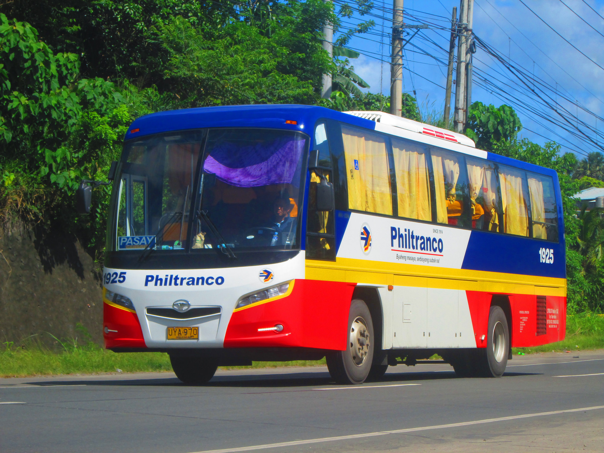 A Philtranco BS106 bound for Pasay/Cubao.